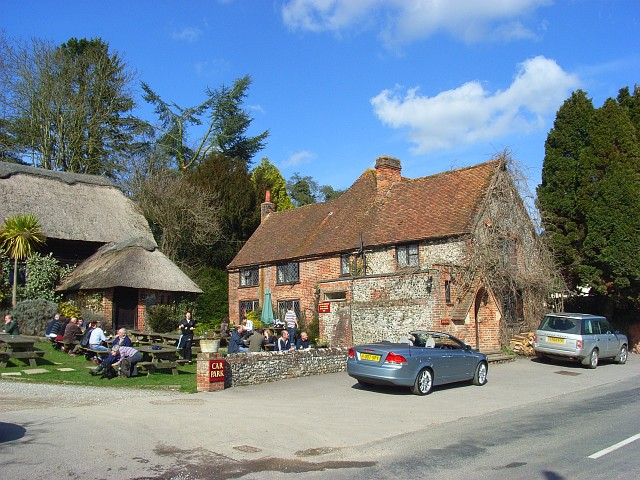 The Crown Inn, Pishill, Oxfordshire, seen from the southwest